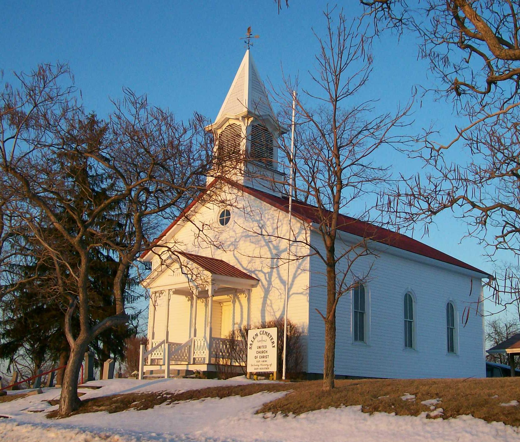 The Salem Church in Monroe County, Ohio. Located on SR 255 north of Sardis, the church was placed on the NRHP in 1992. Camera photographing southwest face. Taken March 4, 2010.